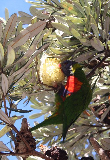 Trichoglossus moluccanus Rainbow Lorikeet feasting on Banksia integrifolia, Waverley, New South Wales. photo Cas Liber, 24/05/2006